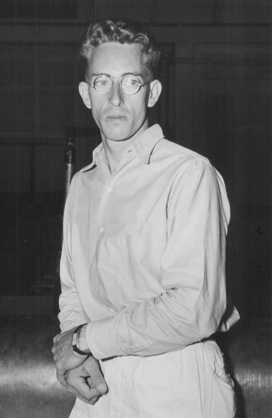 1946 Gene Wettstone Penn State American Gymnastics Coach Olympics Press Photo